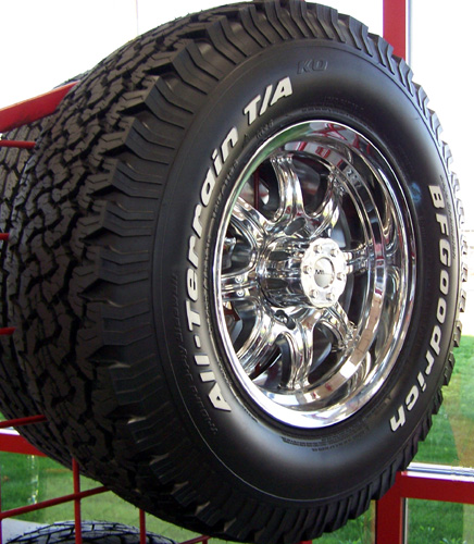 All-terrain tyre.